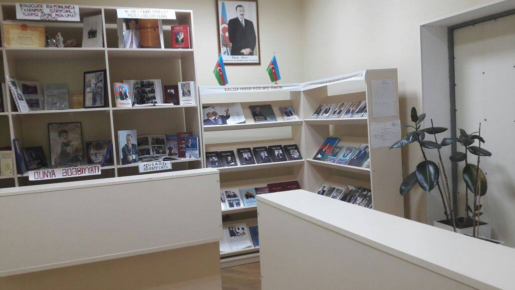 Binəqədi rayon MKS-nin 2 saylı kitabxana-filialı